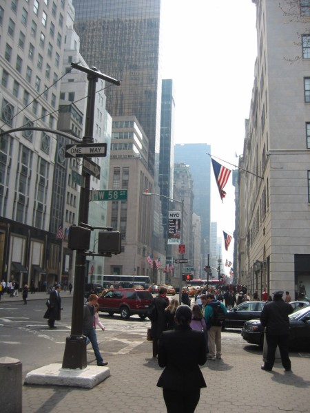 Fifth Avenue at 58th Street in New York City.